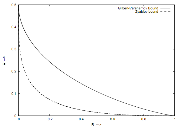 Graph of Zyablov bound